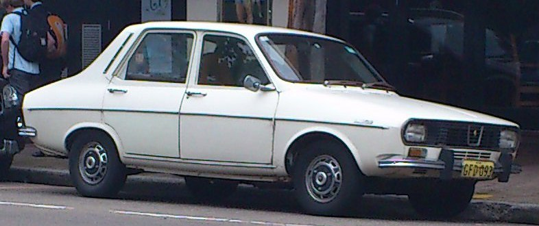 Really like these old Renault 12s, such a great quirky shape to them.